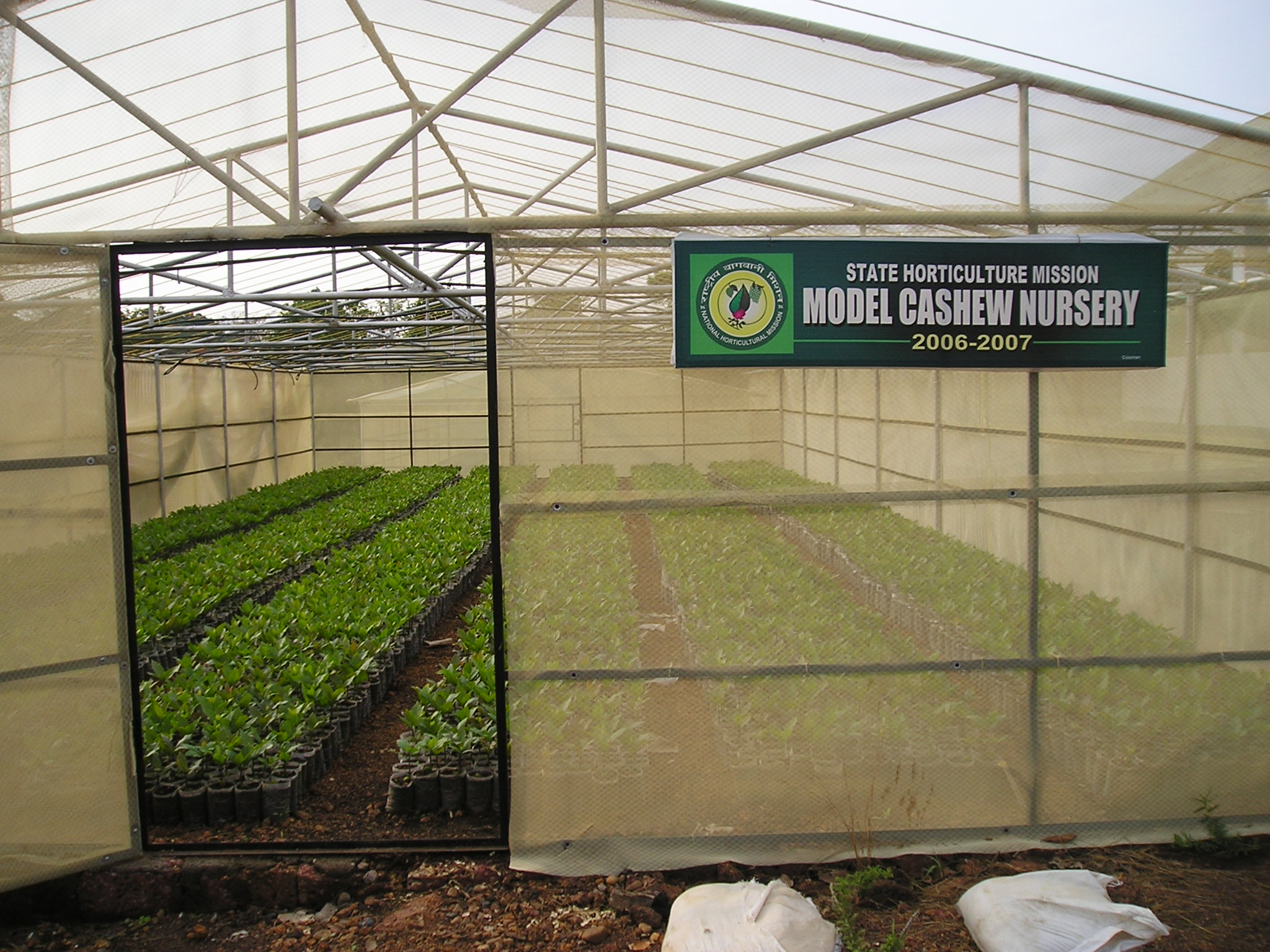 Model Cashew Nursery